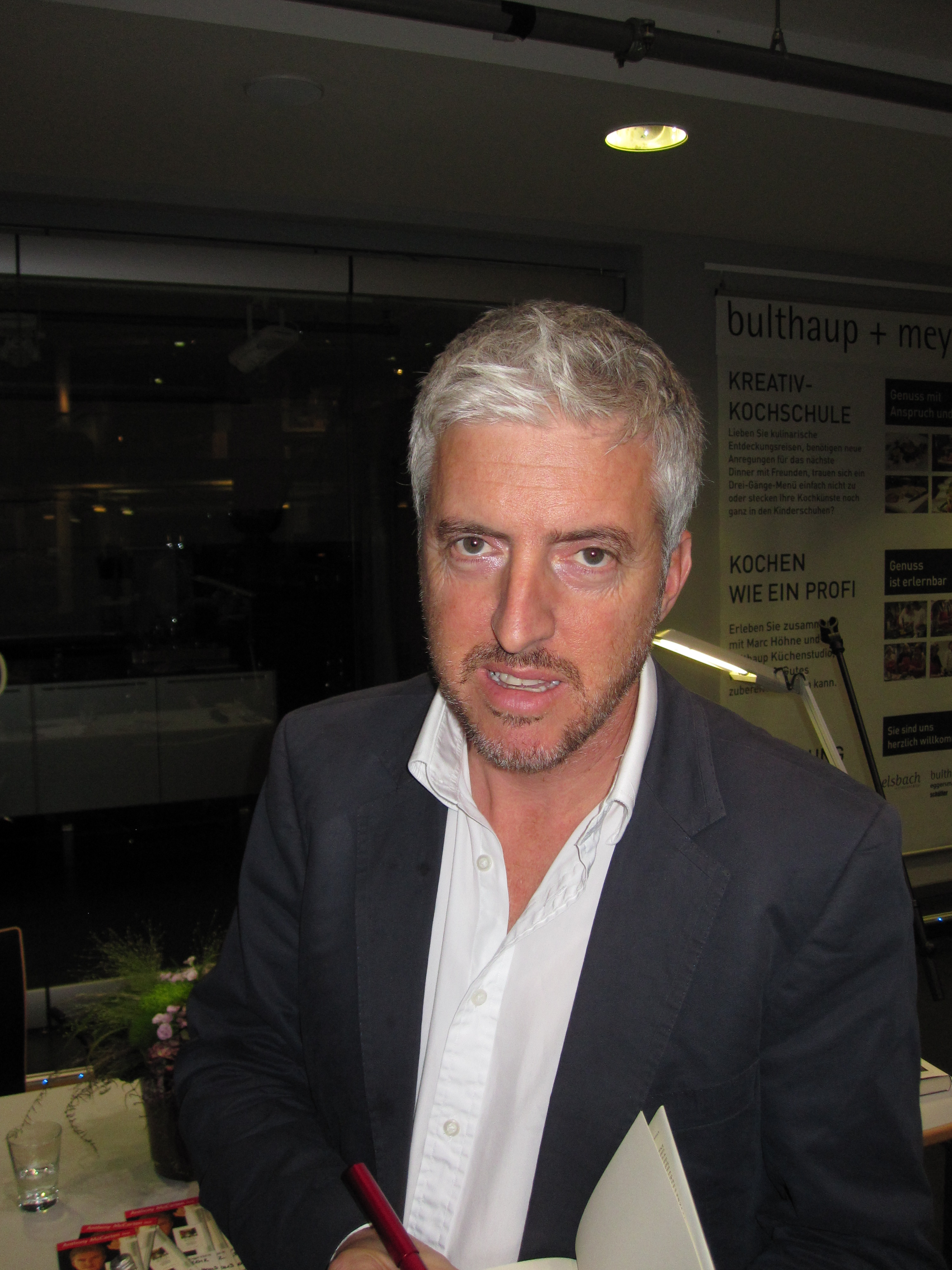 New Zealand author Anthony Mccarten at a reading in Herford, Germany, in September 2012.